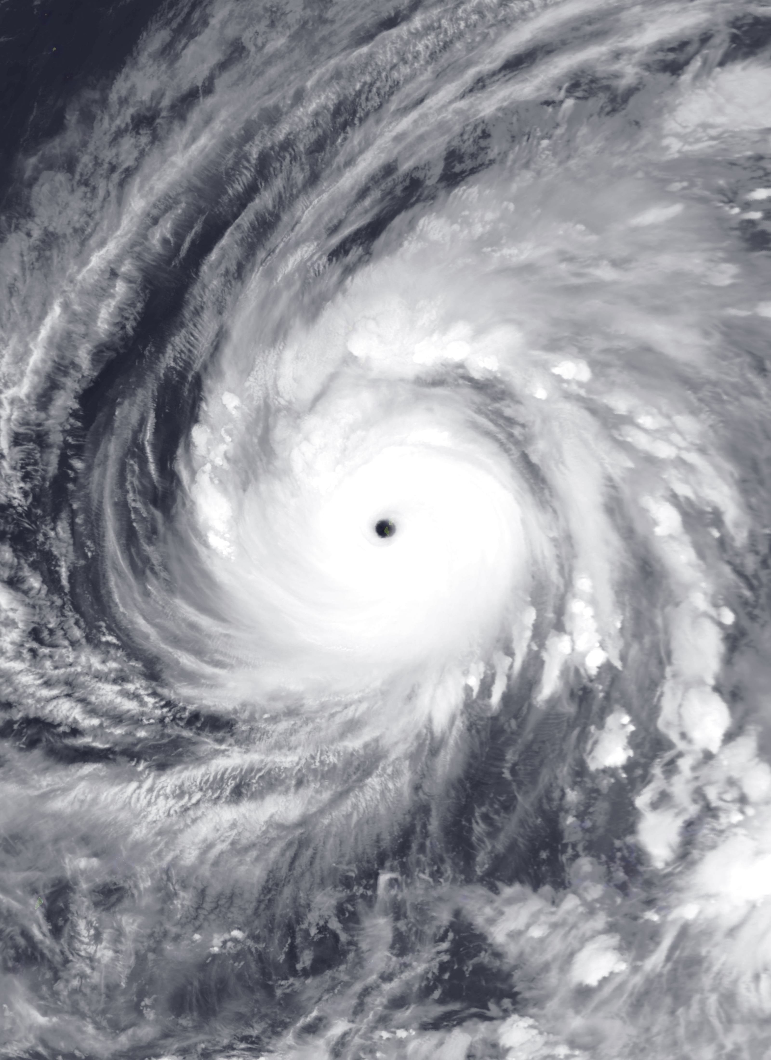 Typhoon Yutu on October 24, 2018. The island of Tinian can be seen in the eye.